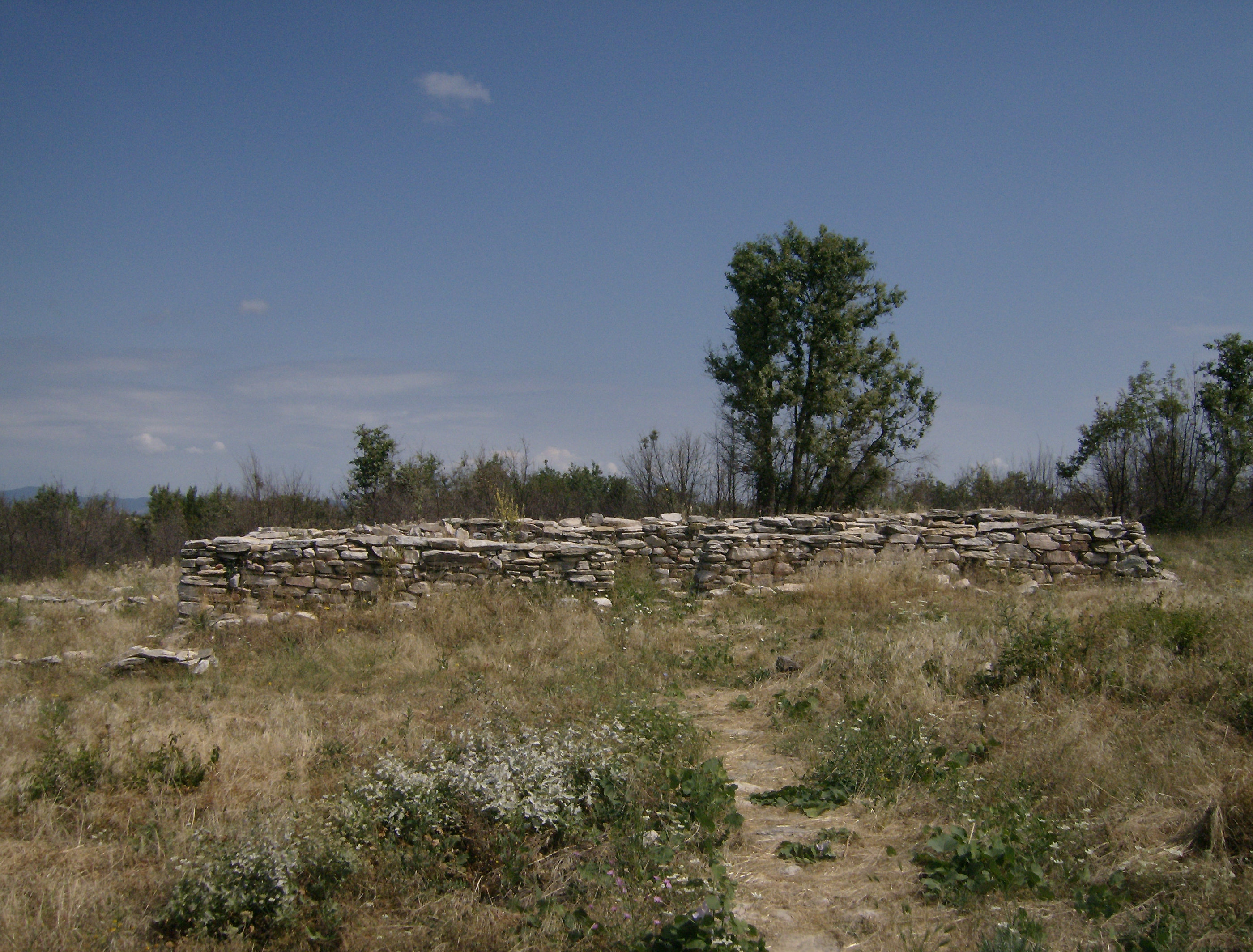 Lyutitsa Fortress